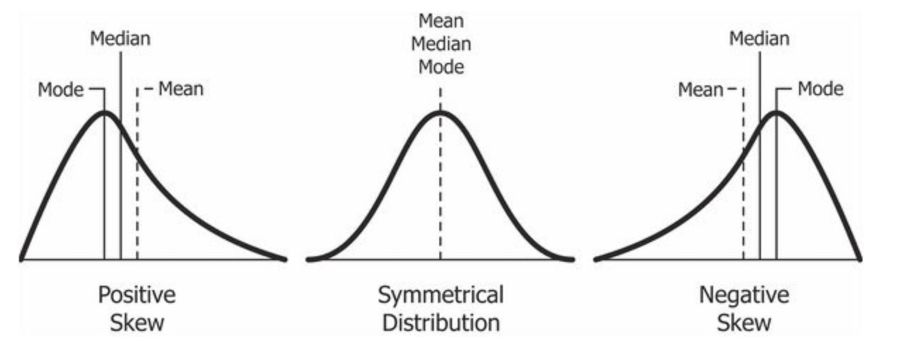 the mean and the median have different relationships for differently skewed distribution